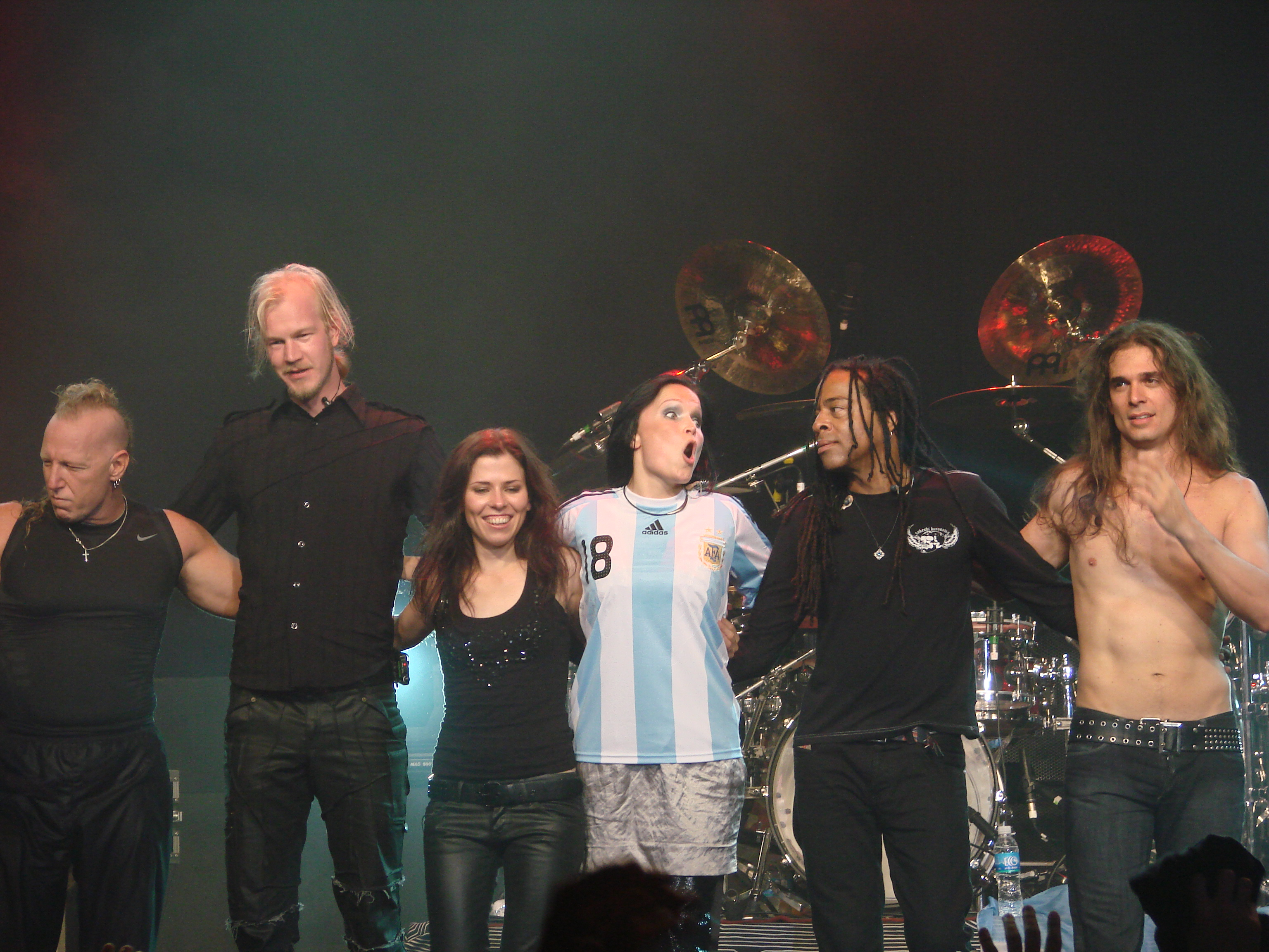 Tarja Turunen singing at the Obras Stadium in Buenos Aires, Argentina, on September 6, 2008. This was the last show of the Winter Storm tour on America. Mike Terrana (drums), Max Lilja (cello), Maria Ilmoniemi (keyboards), Tarja Turunen (vocals), Doug Wimbish (bass) and Kiko Loureiro (guitar).